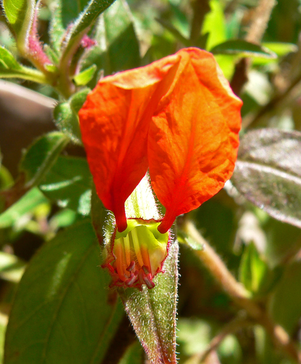 Cuphea nudicostata at the University of California Botanical Garden, Berkeley, California